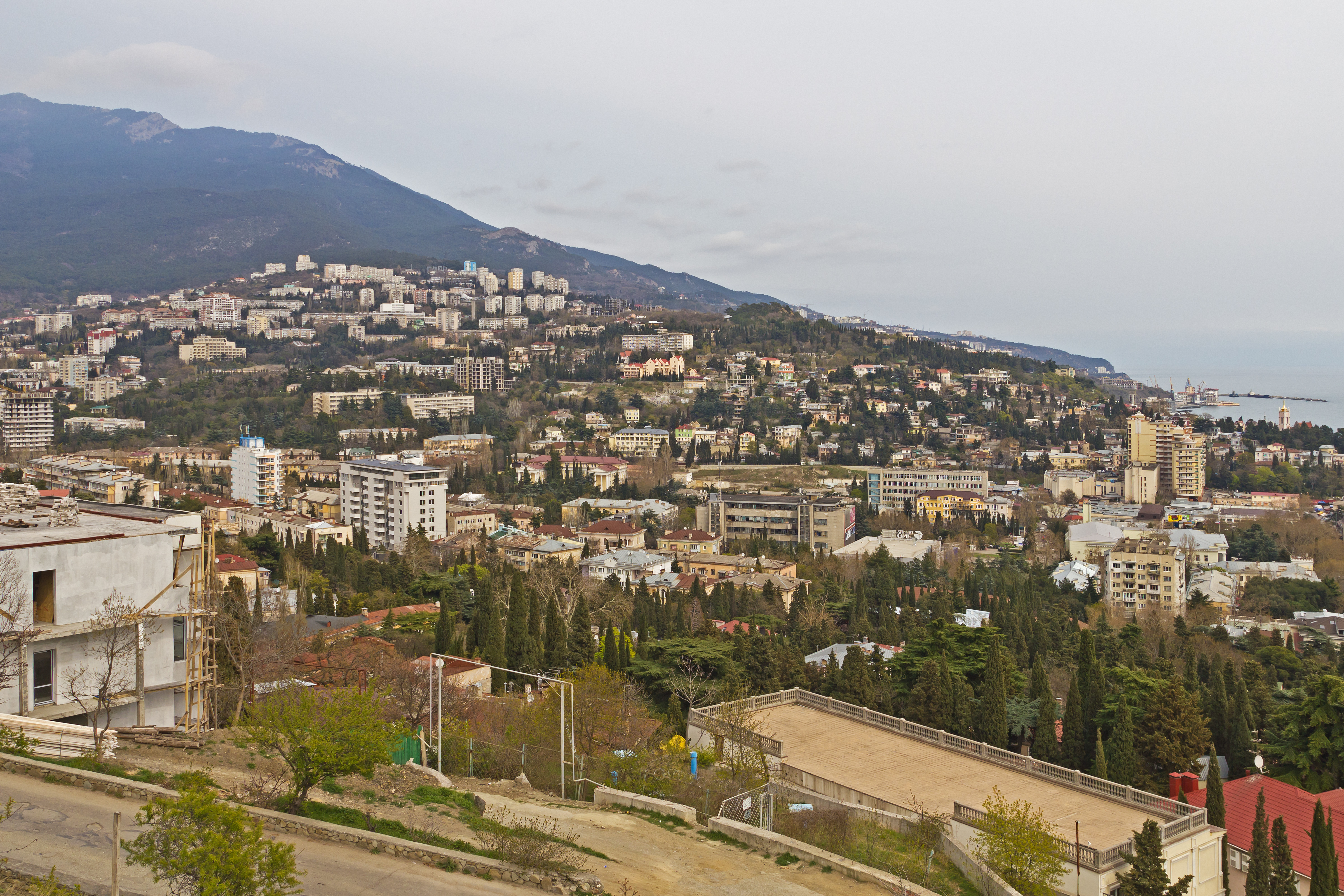 The city cableway of Yalta, Crimean Peninsula. View of the town from one of the cabins.